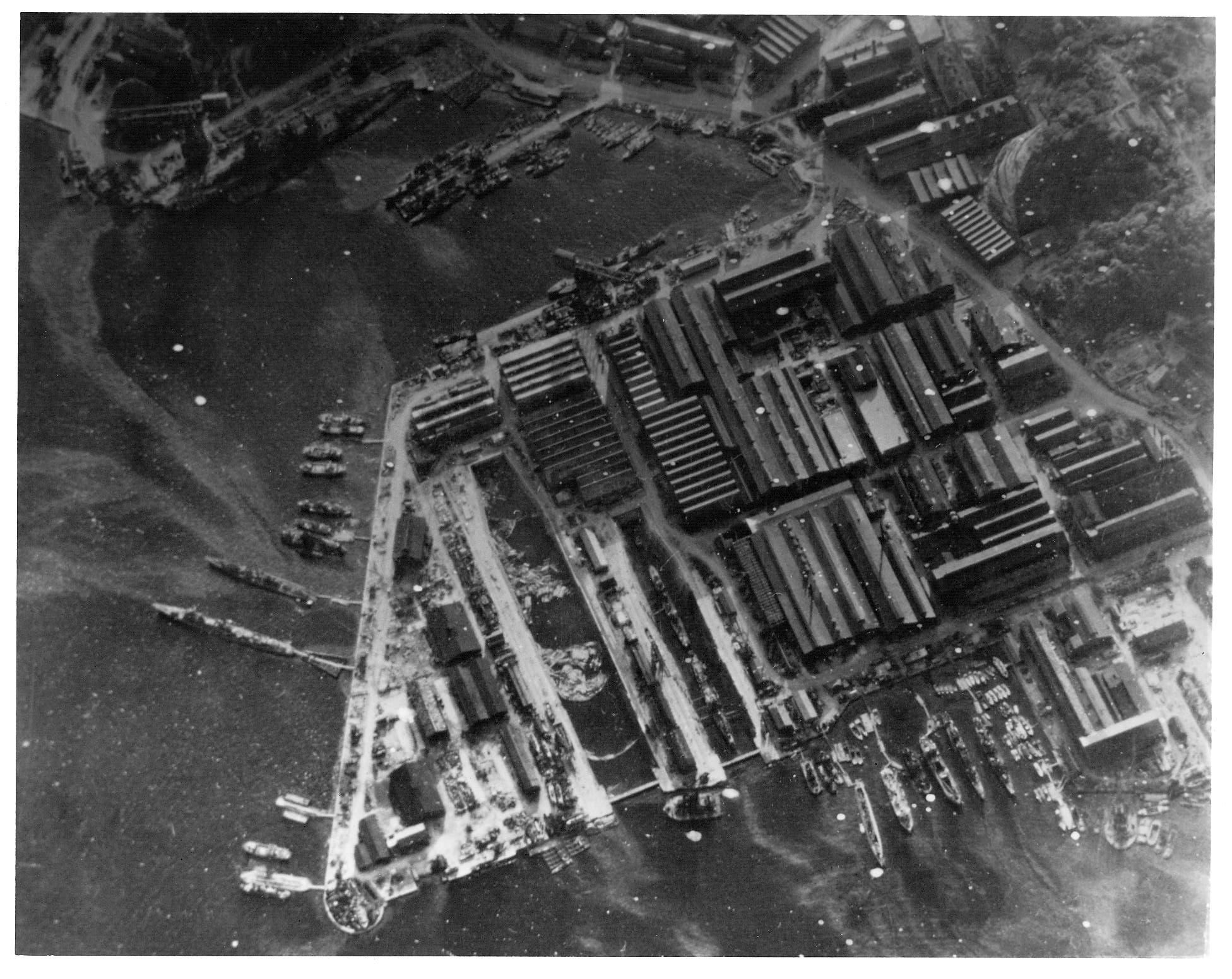 Reconnaissance photograph of Yokosuka Naval Base near Tokyo, Japan, on 18 July 1945.